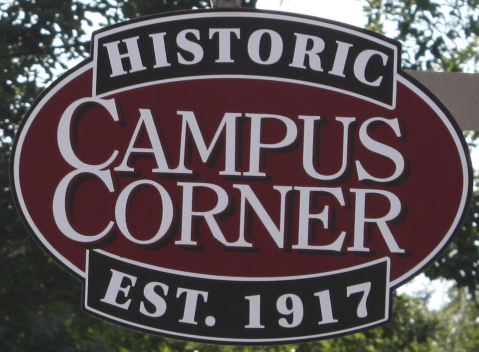 Historic Campus Corner marker sign in Norman, OK.